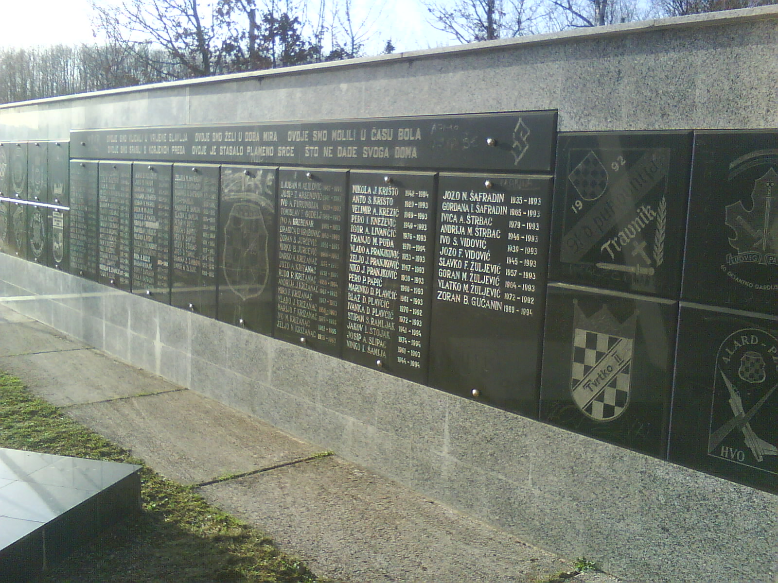 Monument in a tribute of victims from Križančevo selo killings,a war crime comitted over Croats by Bosniak troops